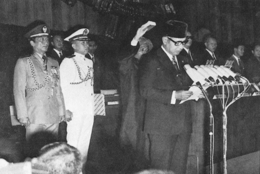 At ceremony, Suharto is appointed president in 1968.